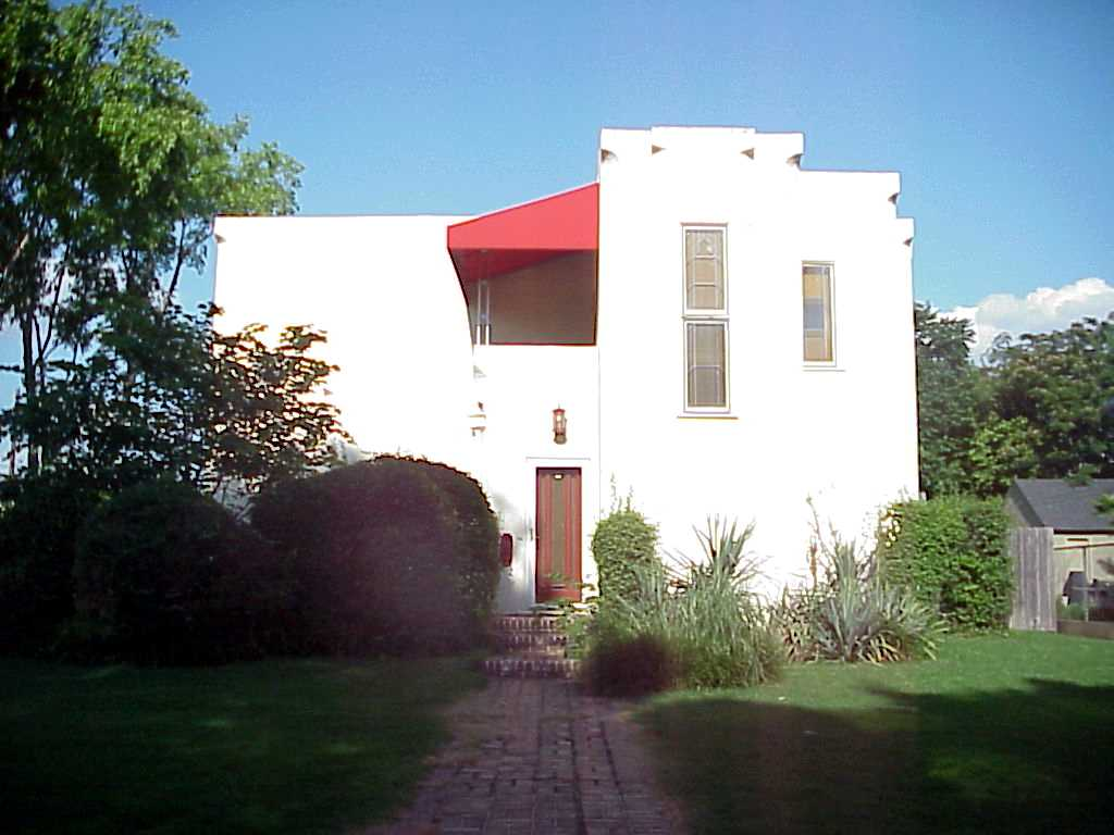 Adah Robinson Residence, 1119 S. Owasso, Tulsa, OK (1927-29), Architects Bruce Goff and Joseph Koberling. Residential example of Zig Zag school of the Art Deco movement.